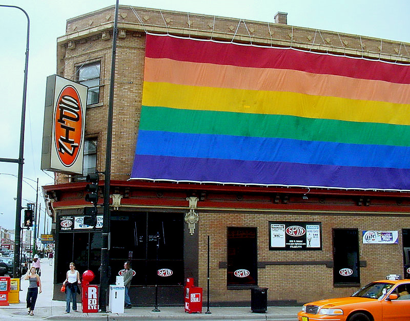 Spin Boystown Pride Flag, Location: Chicago